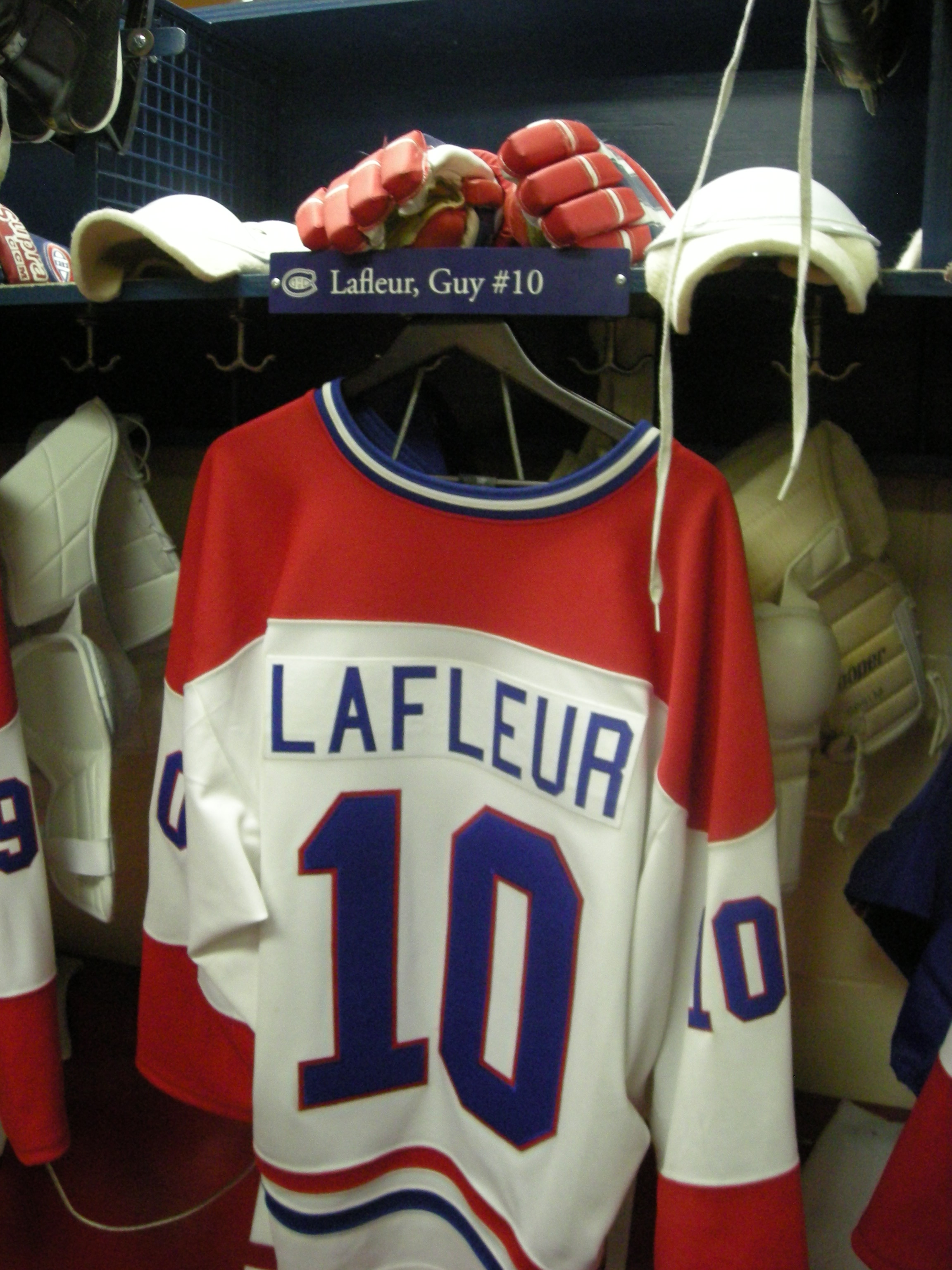 Guy Lafleur's jersey in the replica of the Montreal Canadiens dressing room at the Hockey Hall of Fame in Toronto, Ontario (Canada).